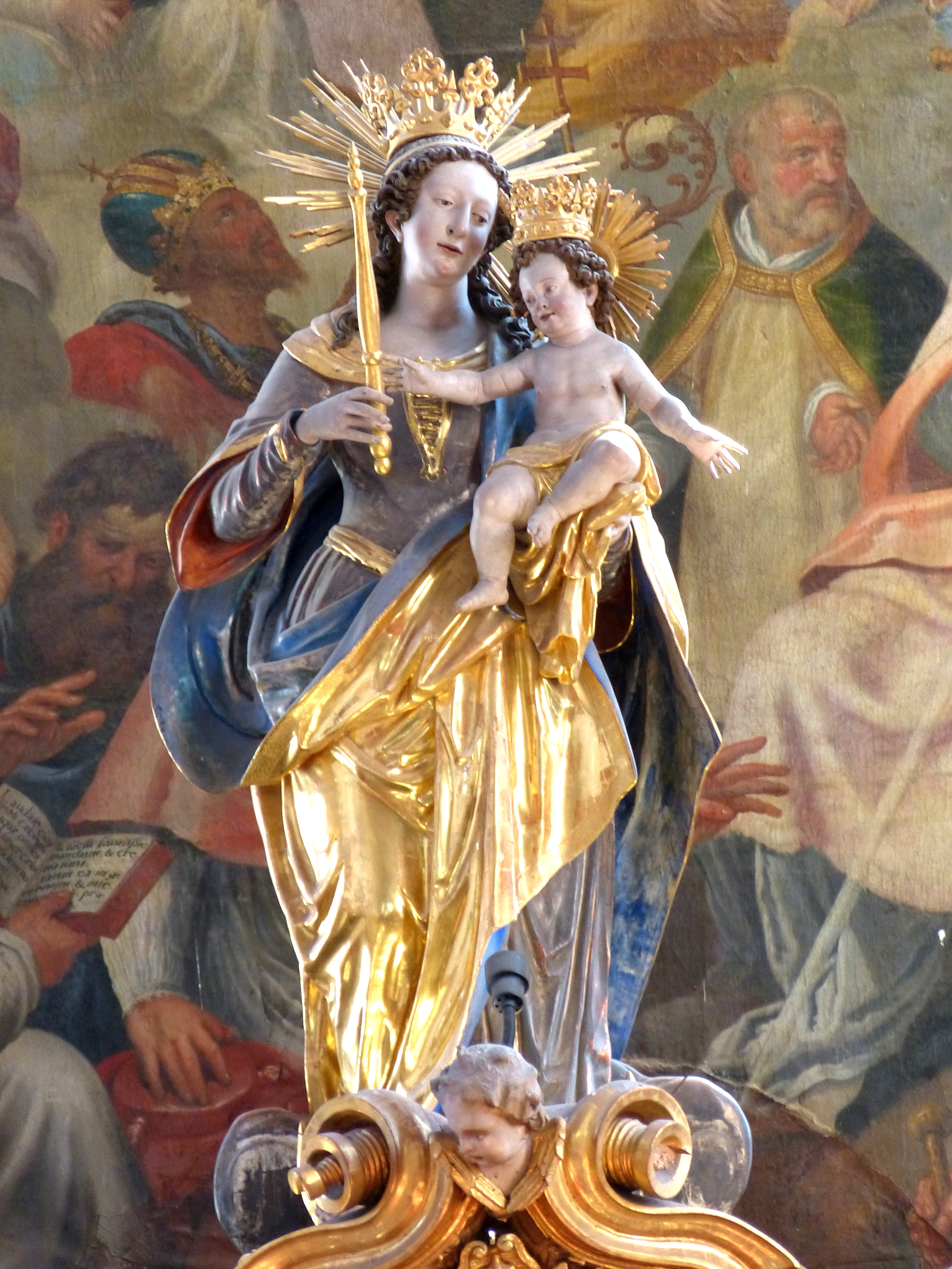 Aldersbach abbey ( Lower Bavaria ). Mary Assumption parish church: Rococo high altar (1723) by Joseph Matthias Götz - Statue of Madonna and Child ( 1620 ) by Hans Degler.